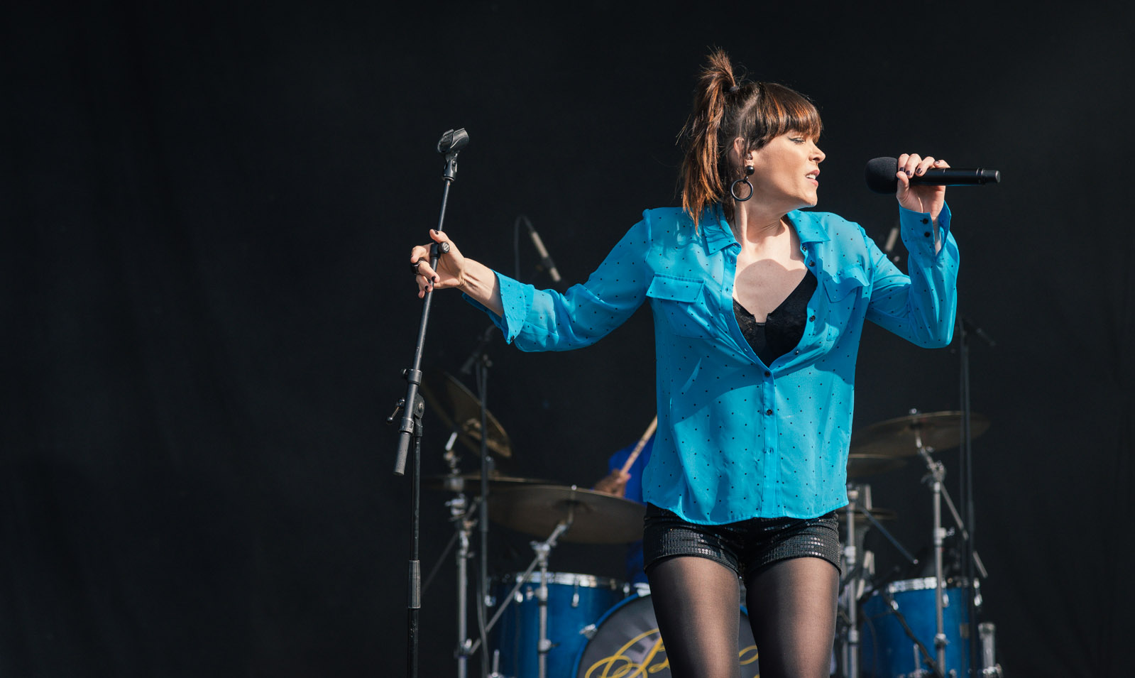 Beth Hart performing at Odderøya Live 2013